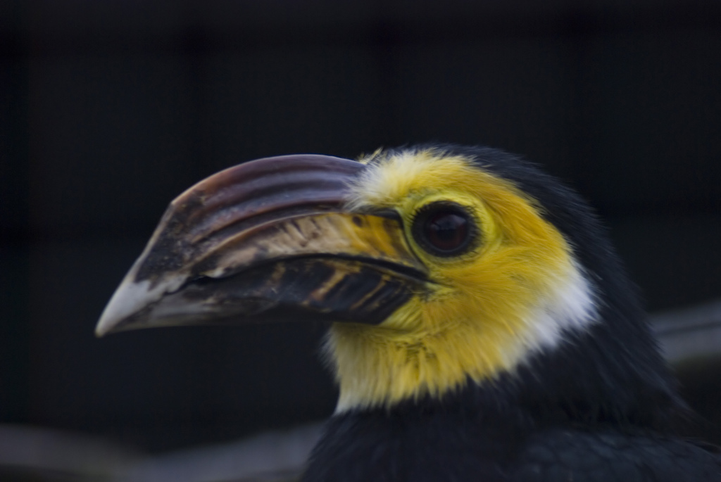 Head shot of a Sulawesi Hornbill (Penelopides exarhatus), taken at Whipsnade Zoo, Bedfordshire, England.